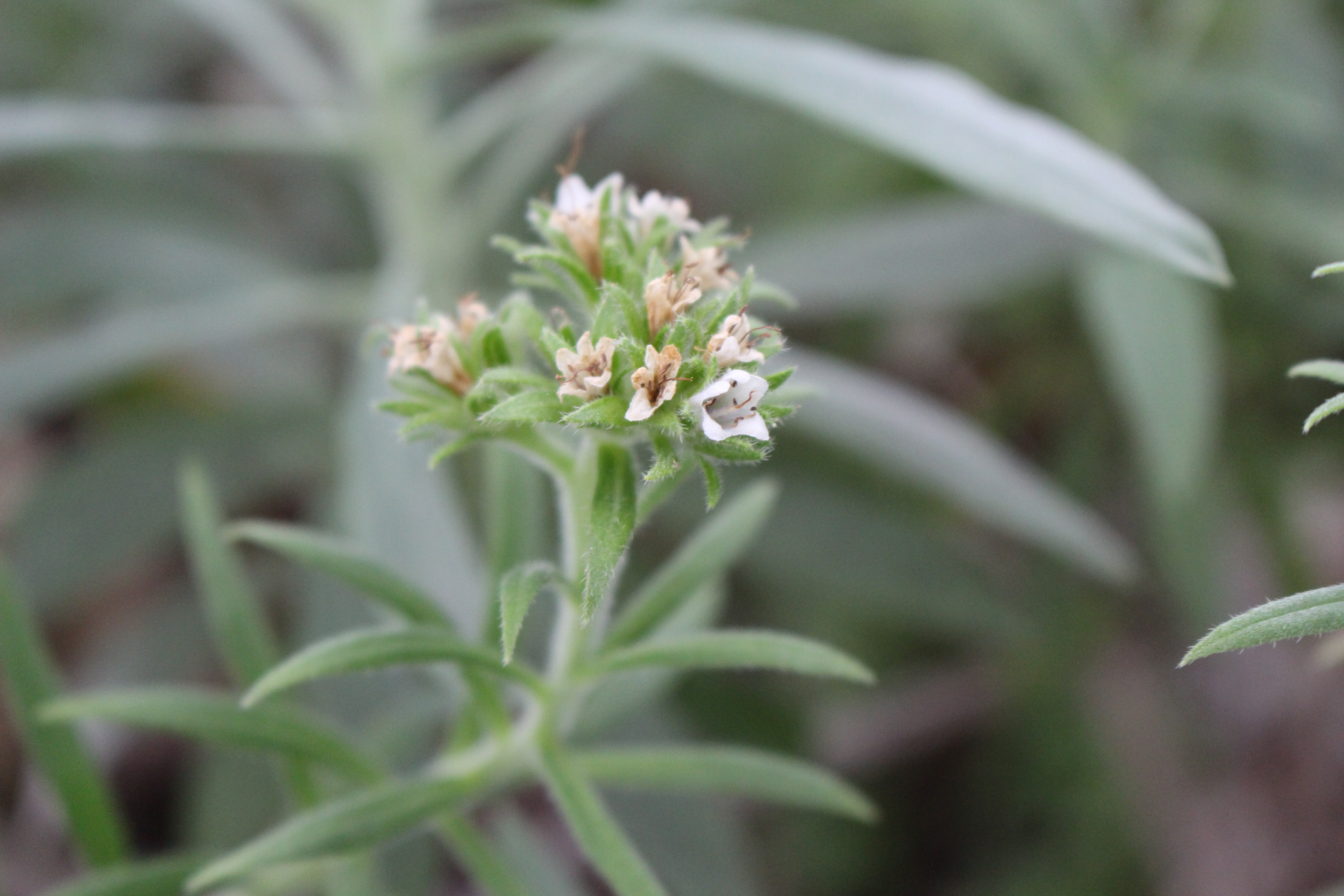 Flowers of Echium hierrense in the botanical gardens in Marburg, Germany.